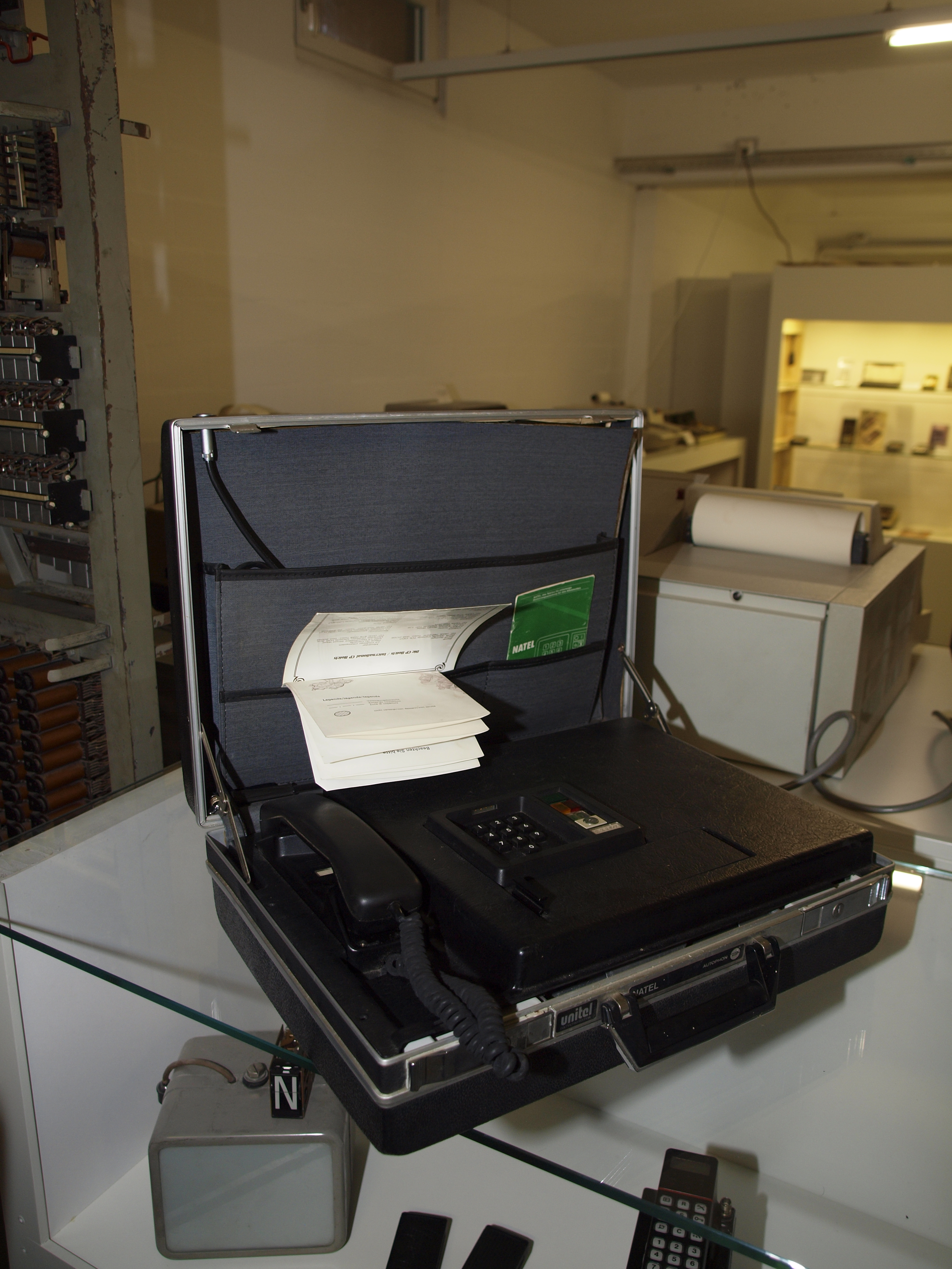 A Natel A, the first portable mobile phone in Switzerland. Manufacturer: Unitel and Autophon. Recorded in ENTER Museum in Solothurn.